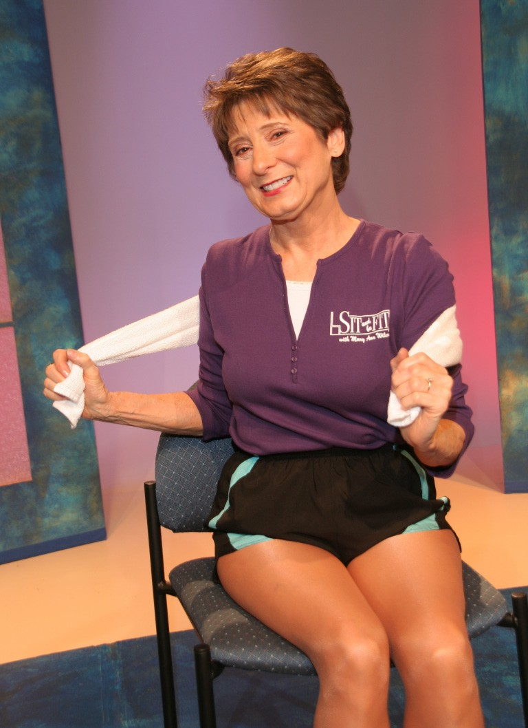 Using a towel, Mary Ann Wilson from the PBS television show Sit and Be Fit, demonstrates how to increase range of motion.